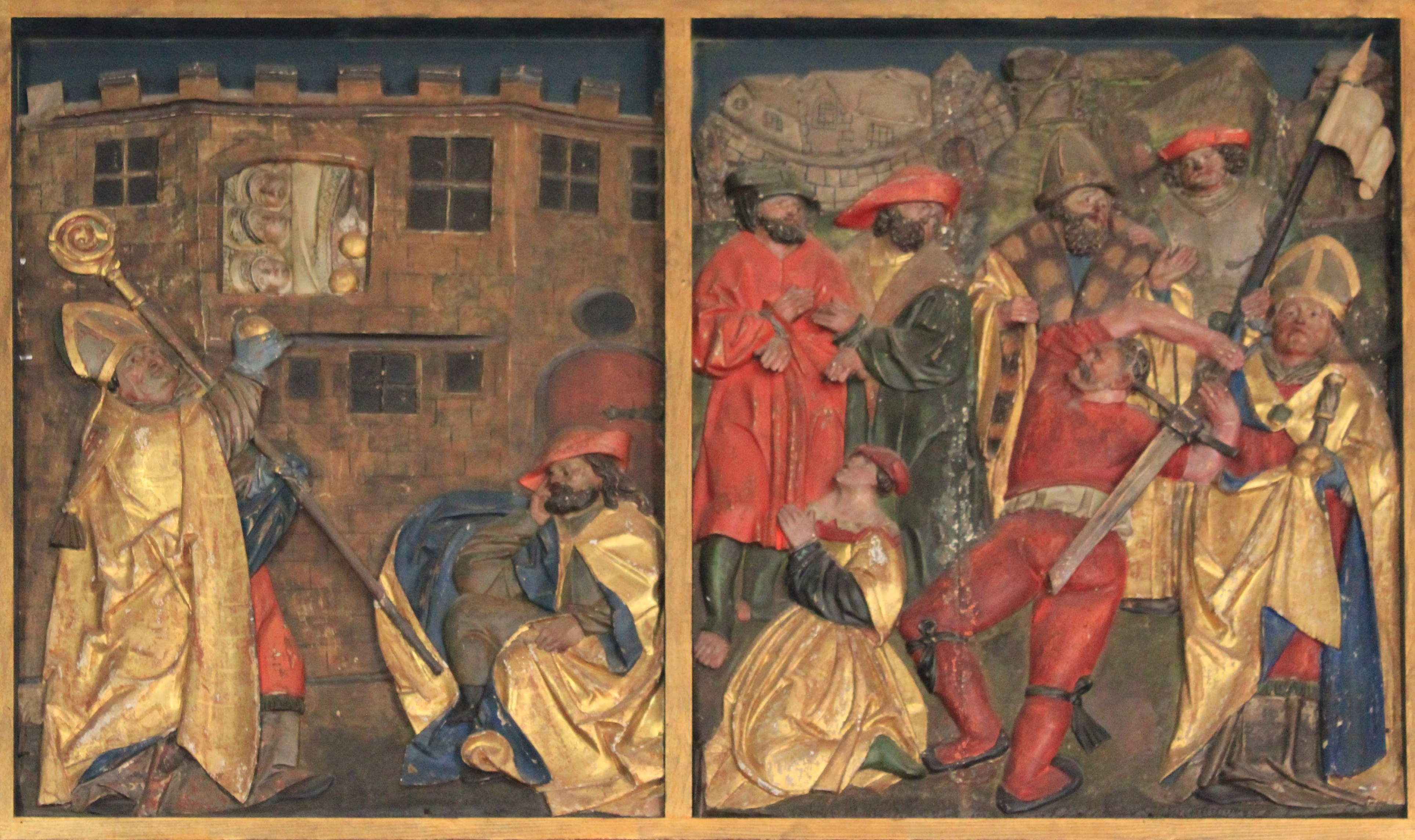 Saint-Niclaus-church in Liesing in the community Lesachtal - Relief with the legend of Saint Niclaus